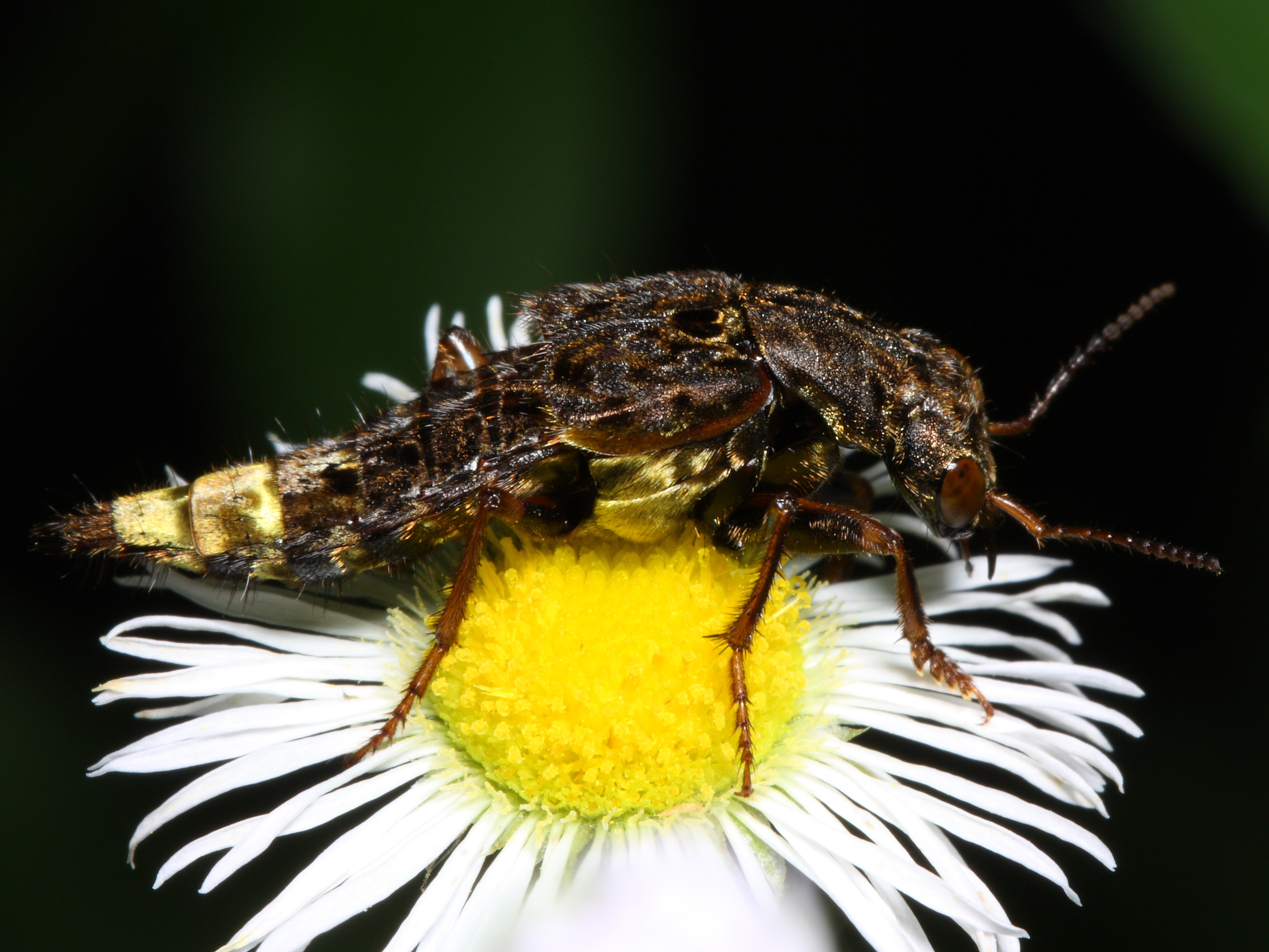 Adult rove beetle Ontholestes cingulatus. Size = 19mm.